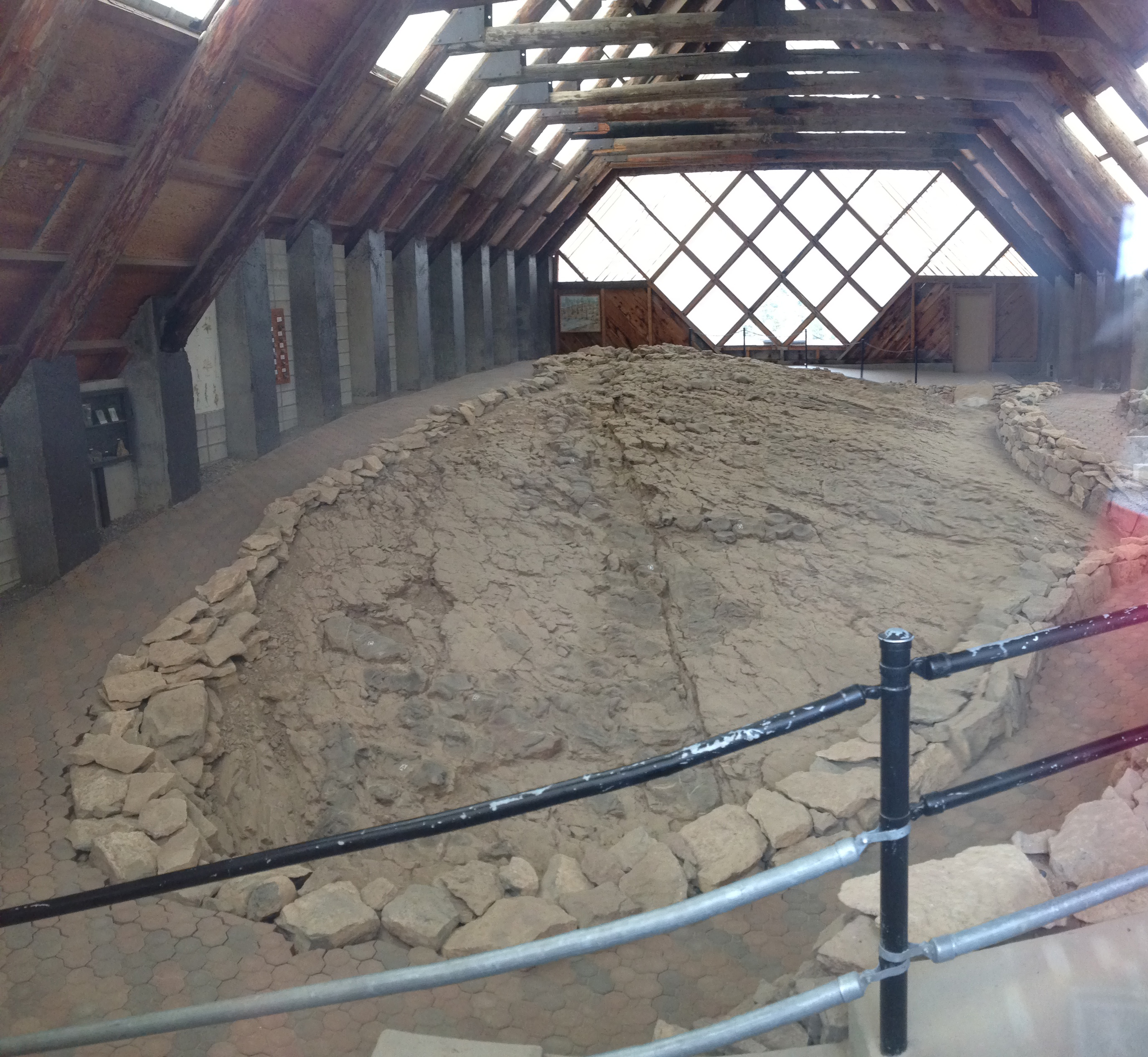 View from the west into the fossil shelter in Berlin–Ichthyosaur State Park, Nevada